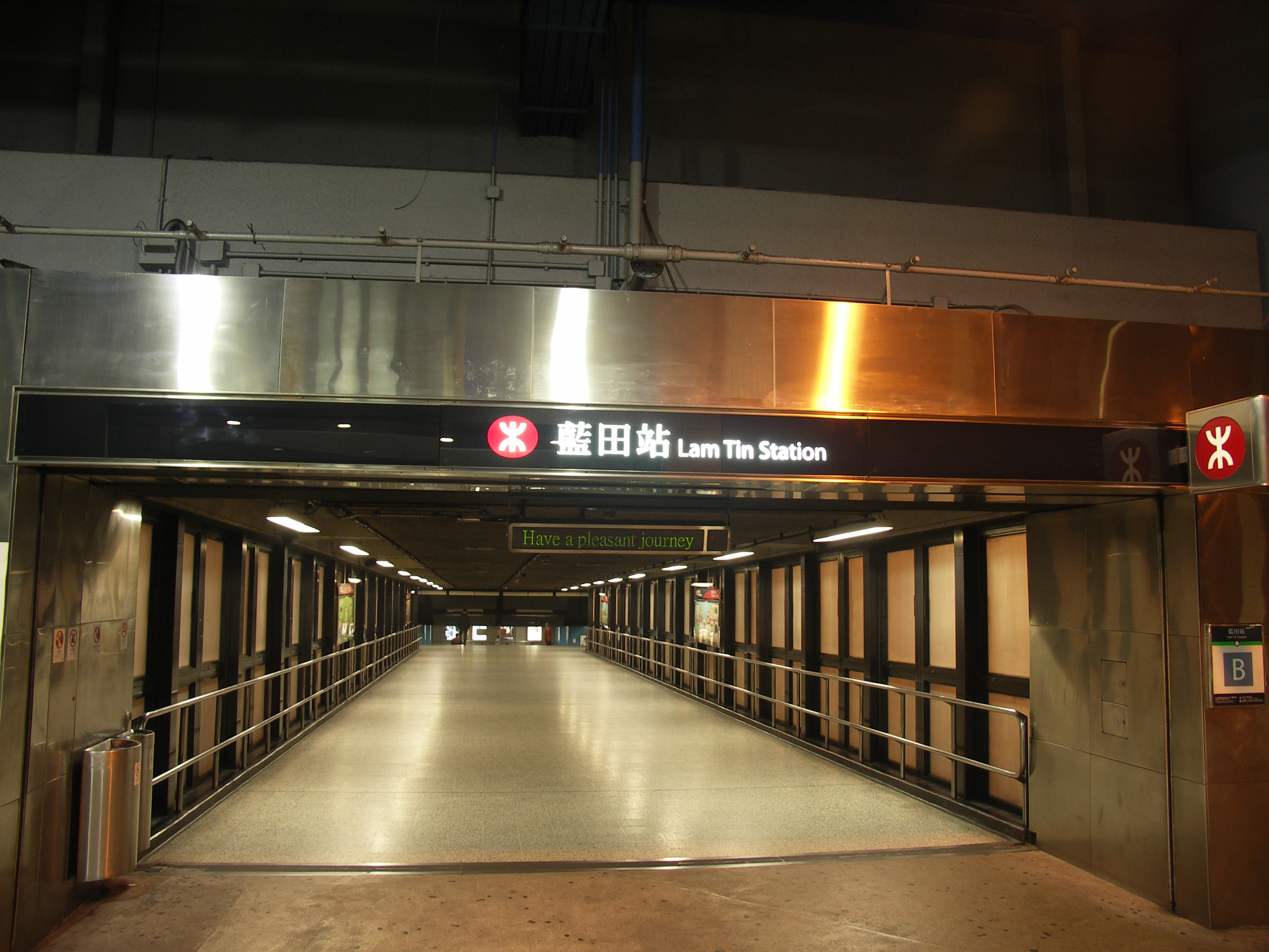 Exit B of Lam Tin MTR Station.